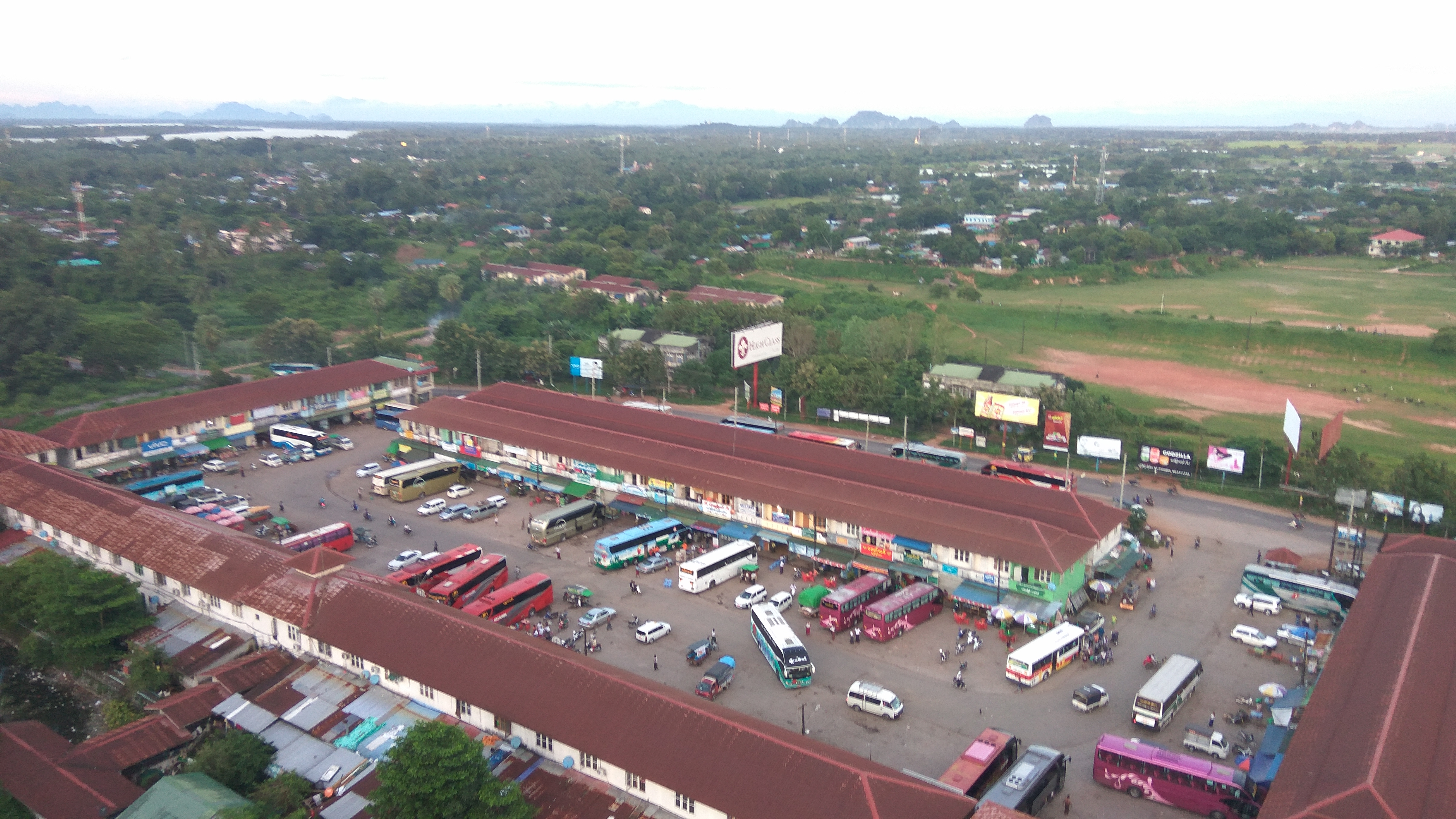 Arial view of Mawlamyine Highway Bus Station မြန်မာဘာသာ: မော်လမြိုင်အဝေးပြေးယာဉ်ရပ်နားစခန်းအား အပေါ်စီးမှ မြင်ရပုံ